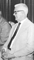 Picture Inacio Bento de Loyola